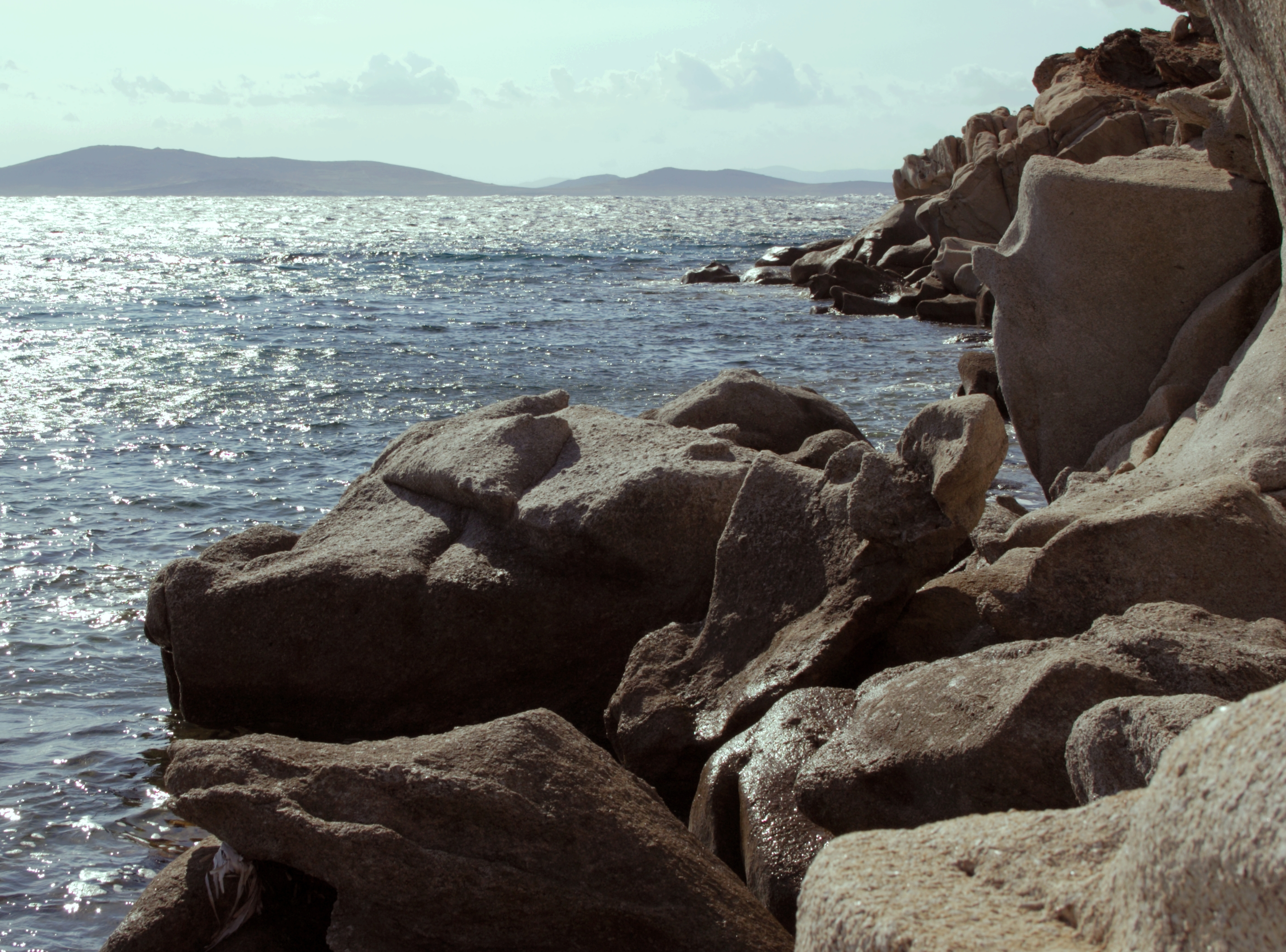 Rock near Kapari on Mykonos, Delos is behind the strait. It is granite or granodiorite, similar to Delos, which is well visible from here.